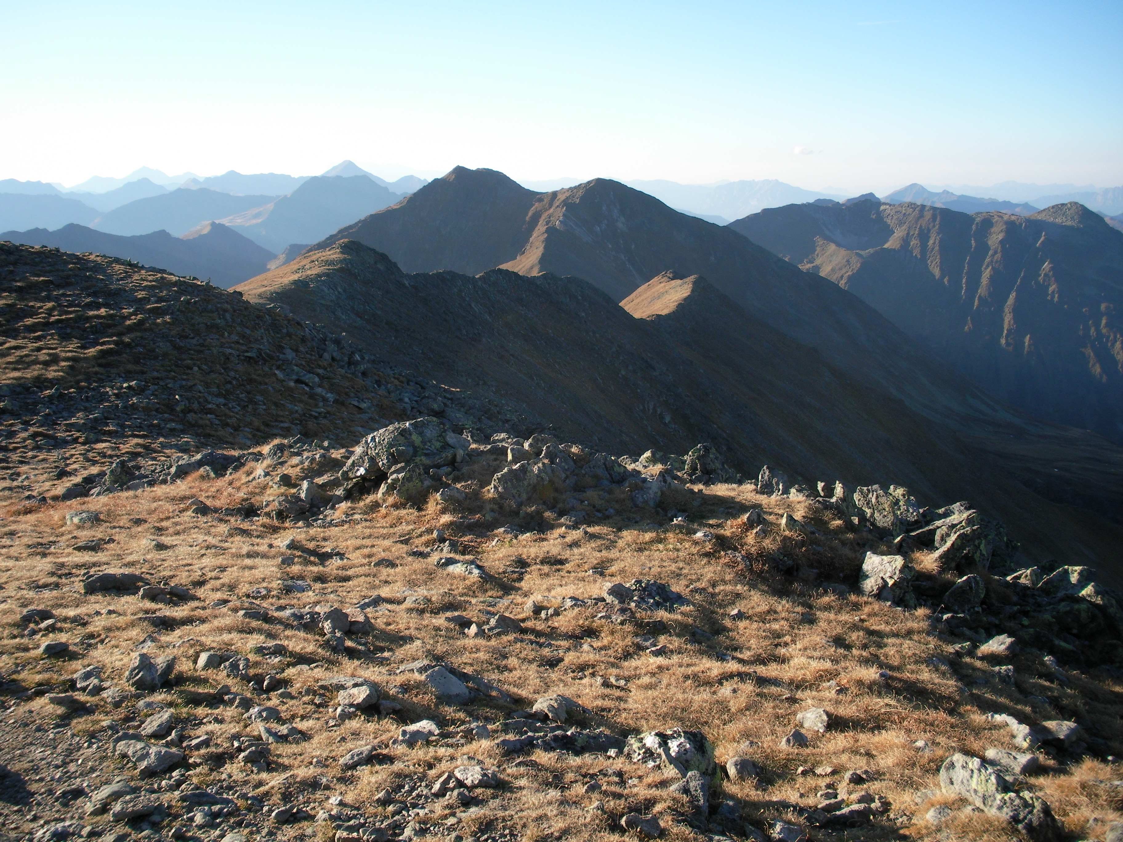 Greim Summit View West Rettlkirchspitze Rottenmanner und Wölzer Tauern.